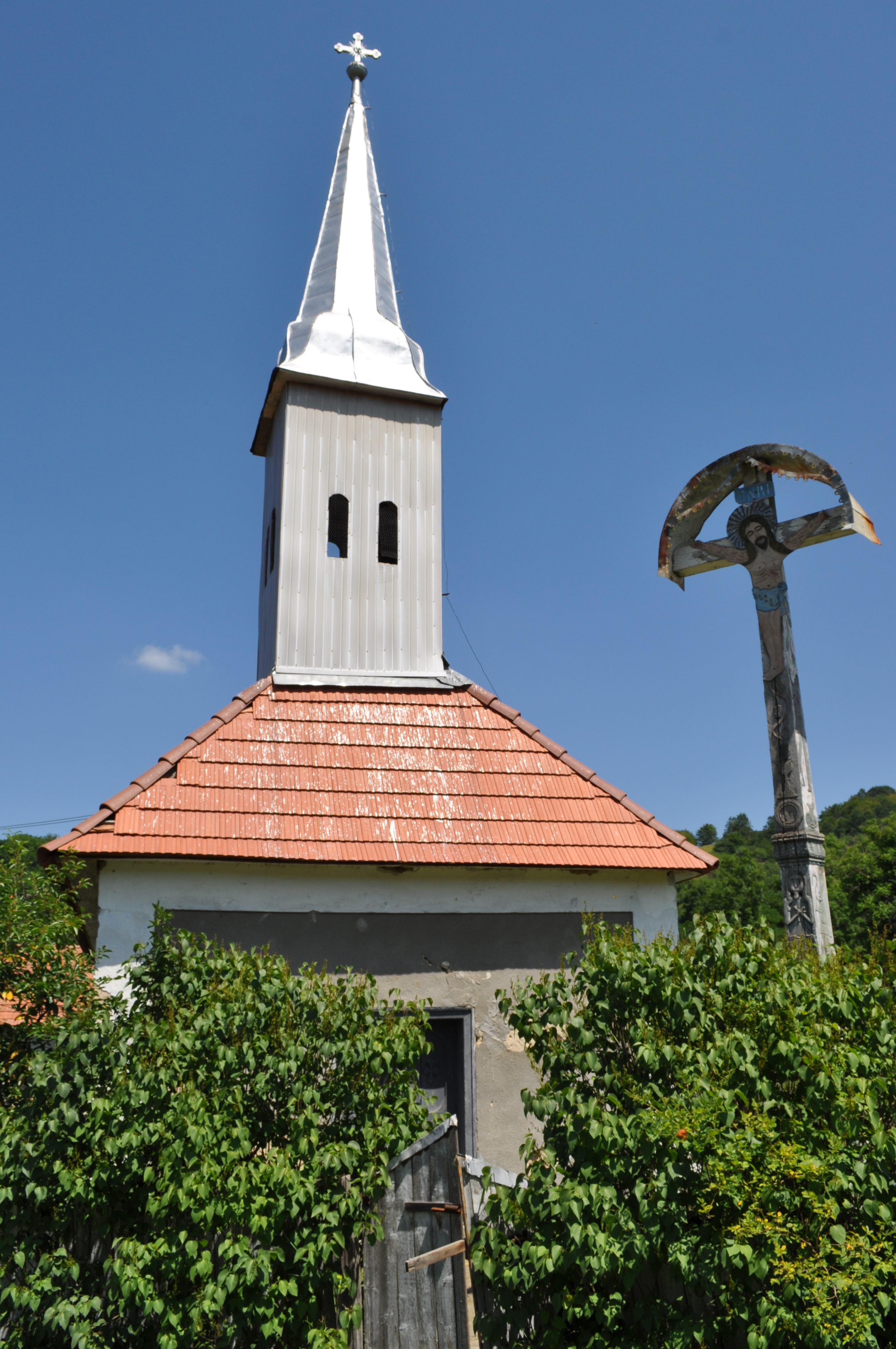 The wooden church in Stoboru, Sălaj county, Romania